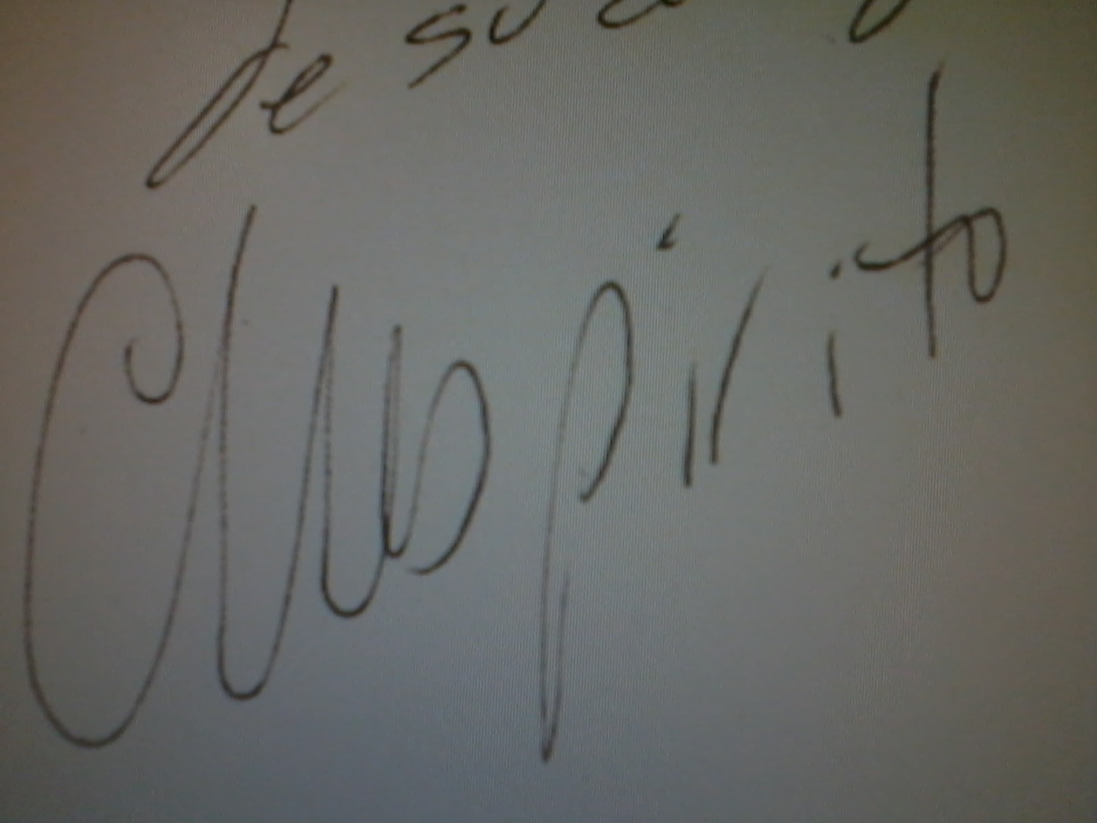 Creator El Chavo del Ocho, Chespirito's Signature